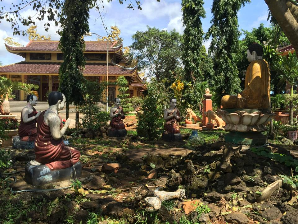 Temple campus